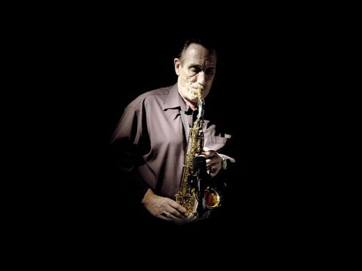 Photo of Mr King